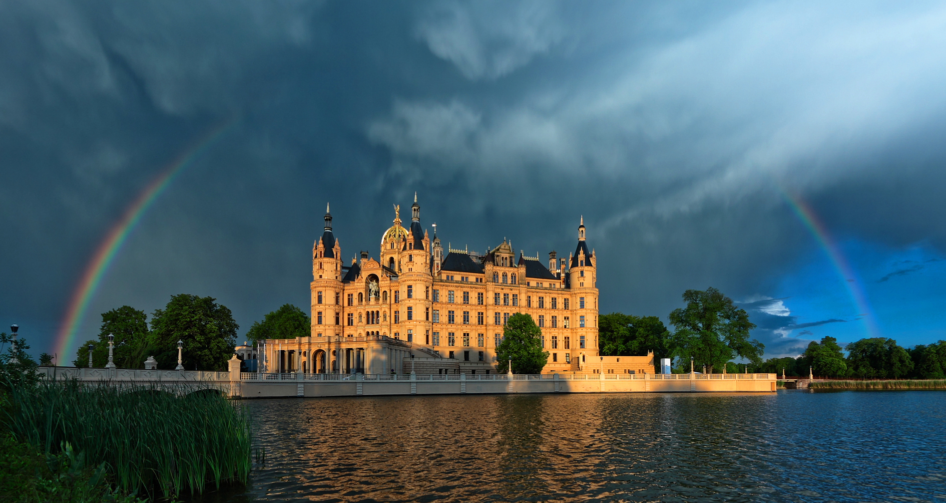 Color variant, white balance on the castle.